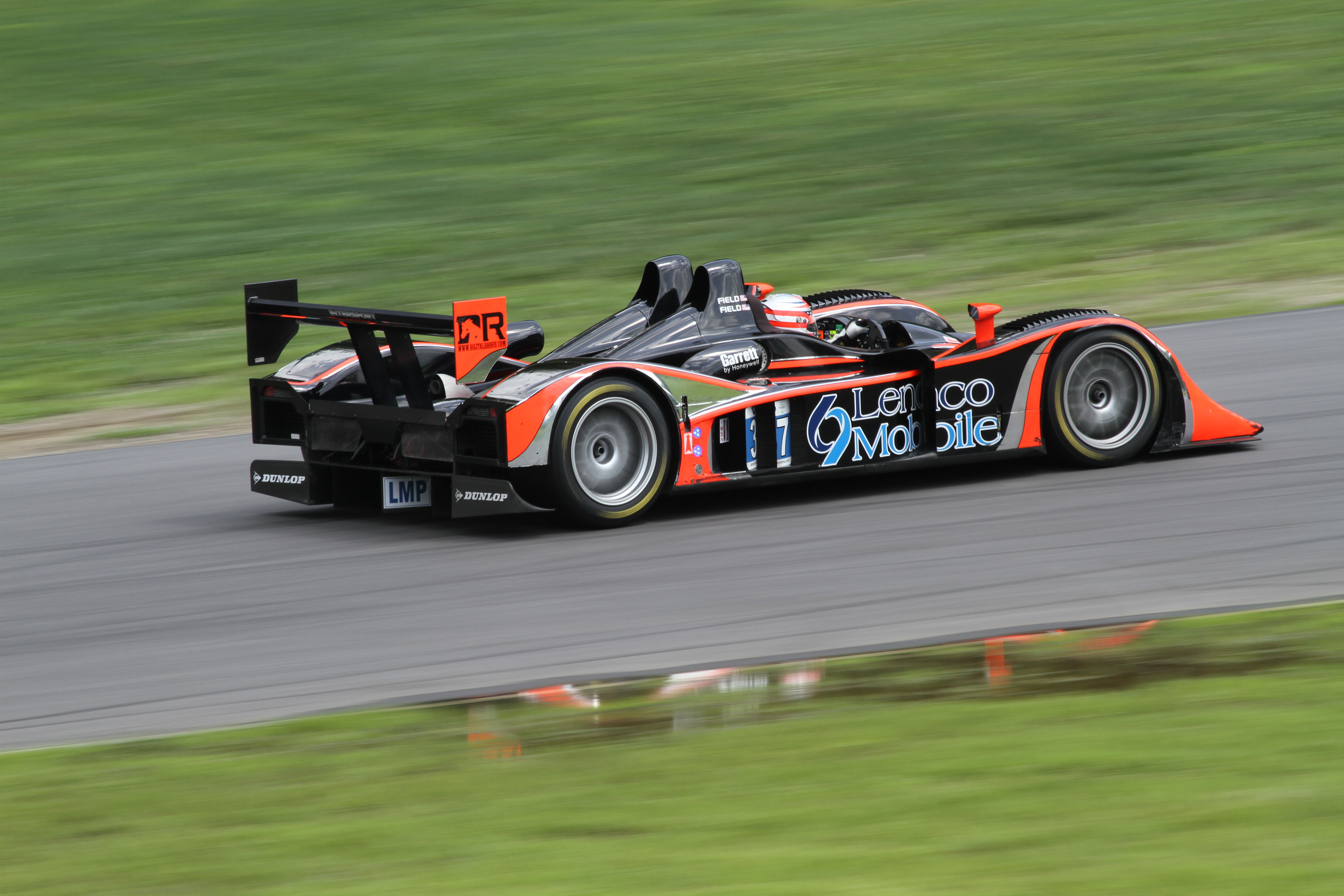 2010 American Le Mans Series Northeast Grand Prix.